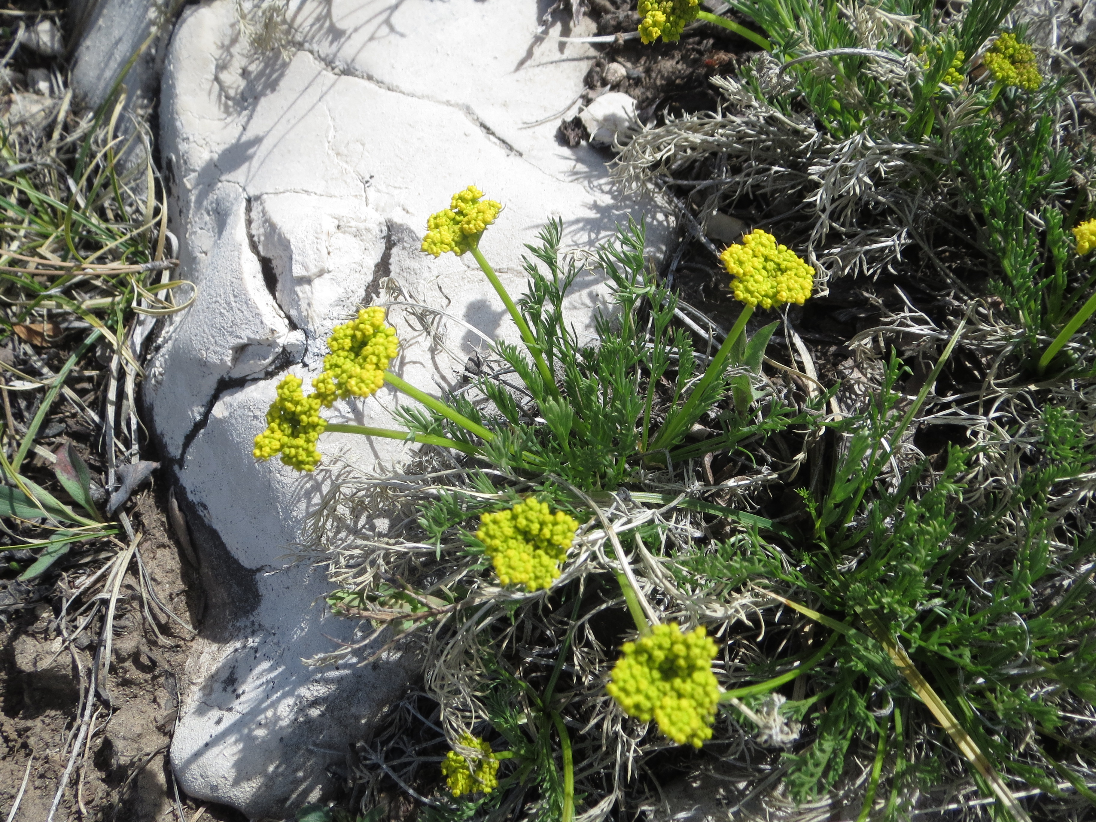 Musineon tenuifolium on Hell Canyon Trail, South Dakota, USA